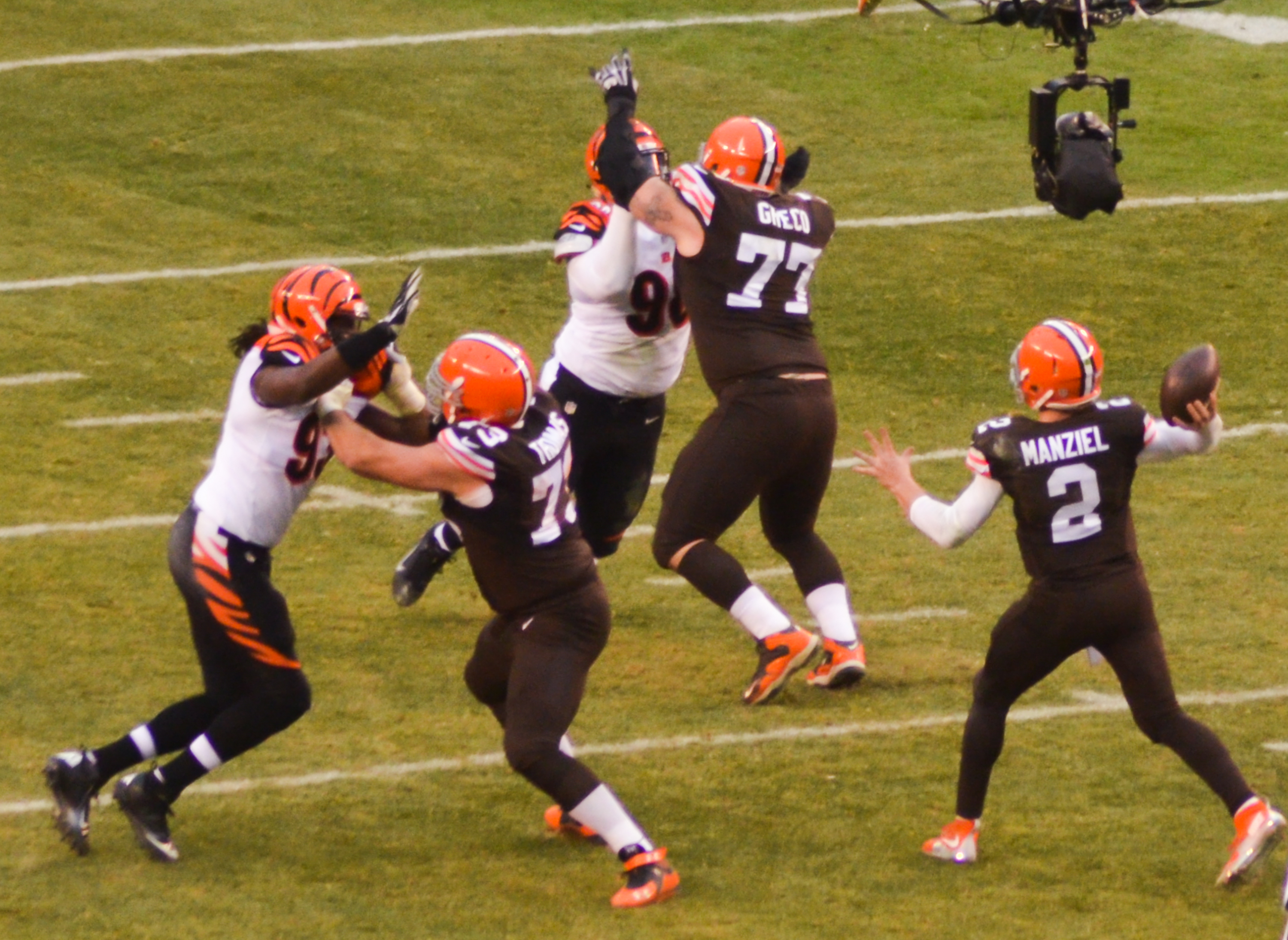 Cleveland Browns vs. Cincinnati Bengals 2014.